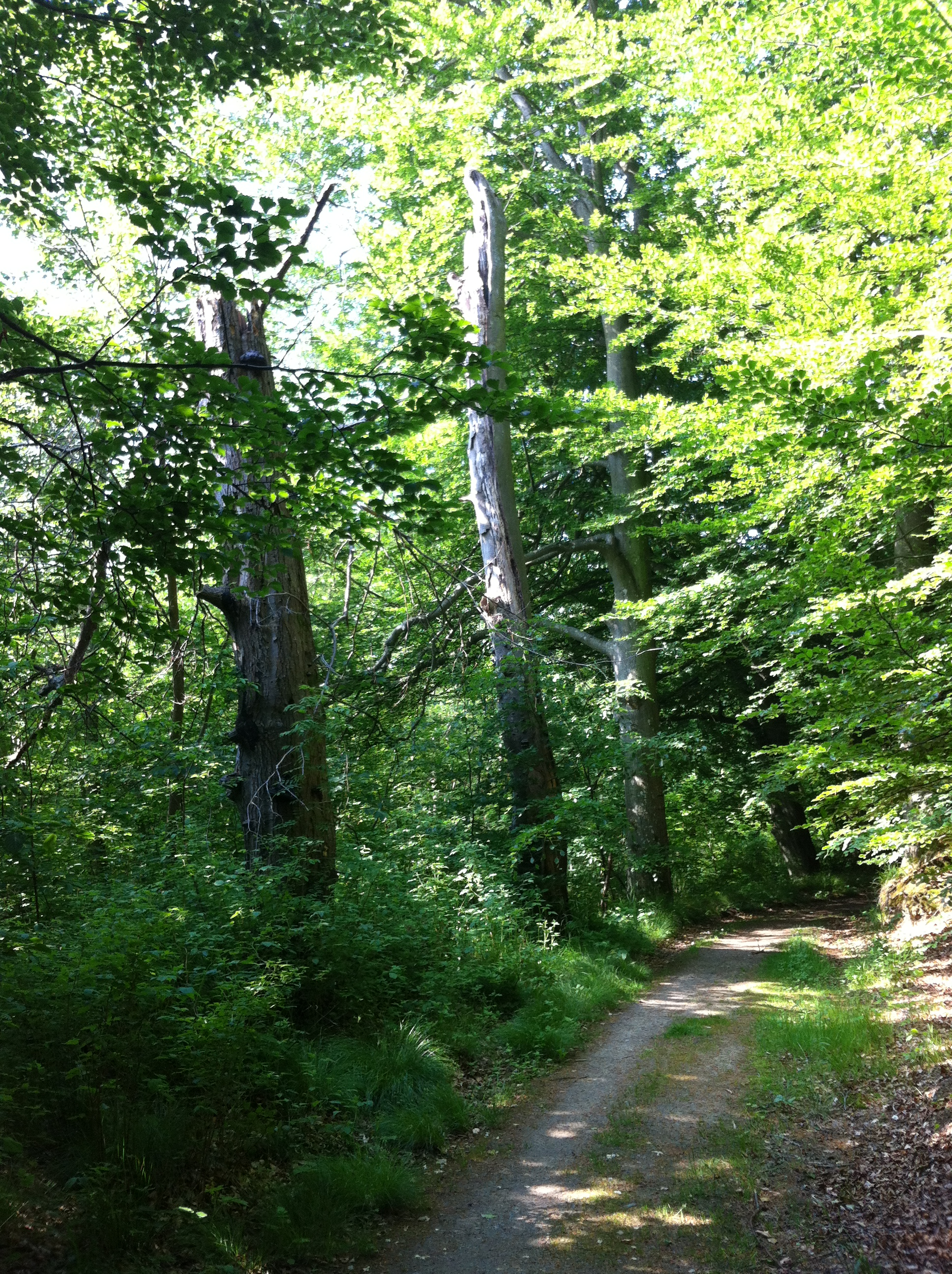 Tree ruins at Lake Vallum, June 2016